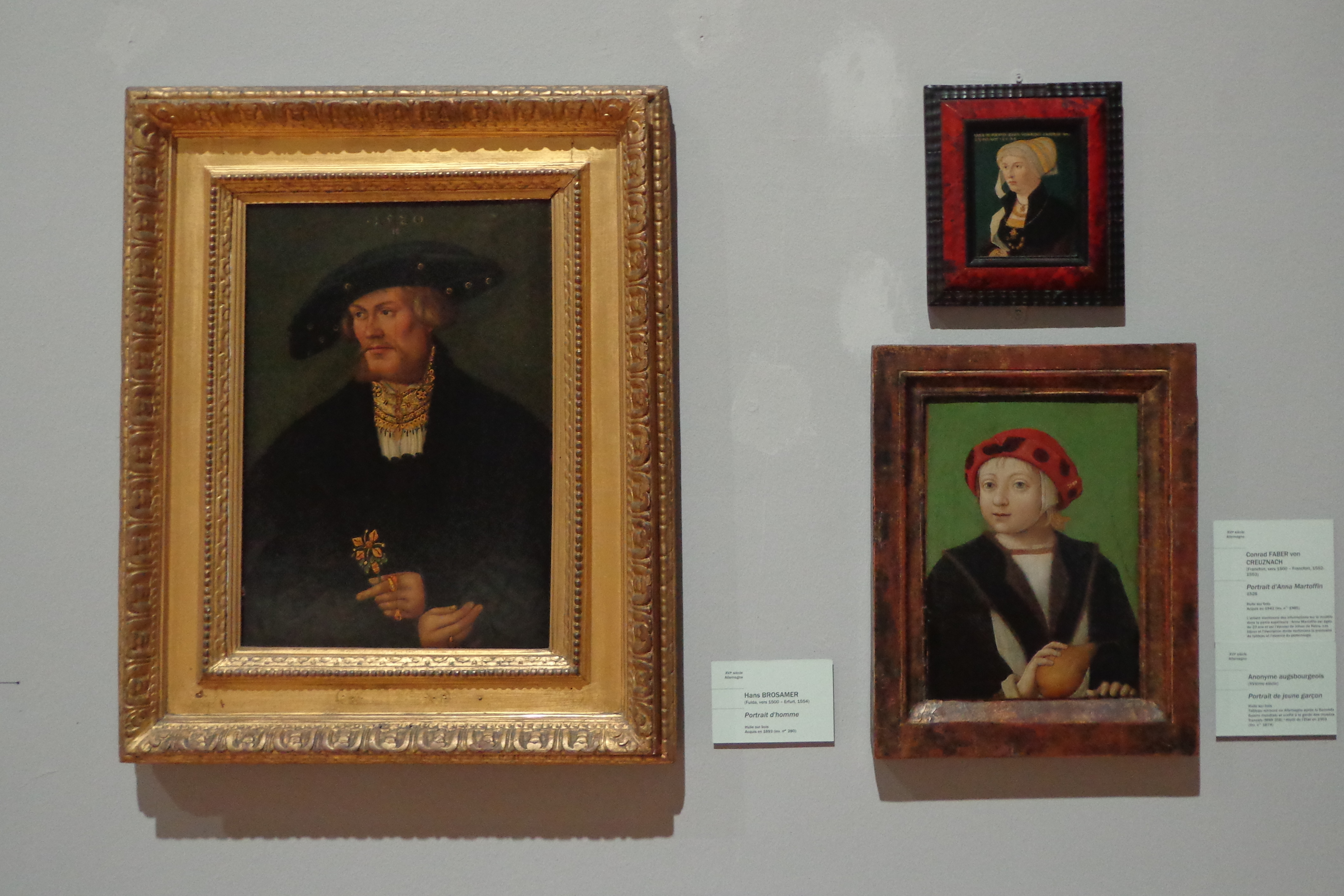 German Renaissance portraits in Strasbourg's Museum of Fine Arts